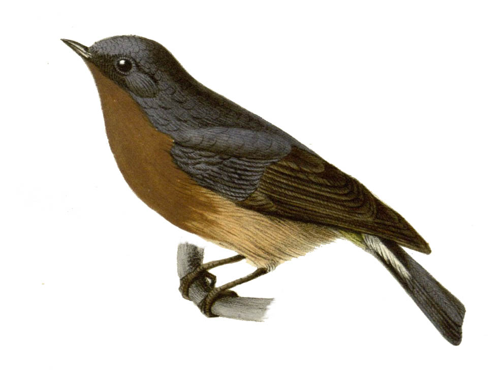 Ficedula hodgsonii